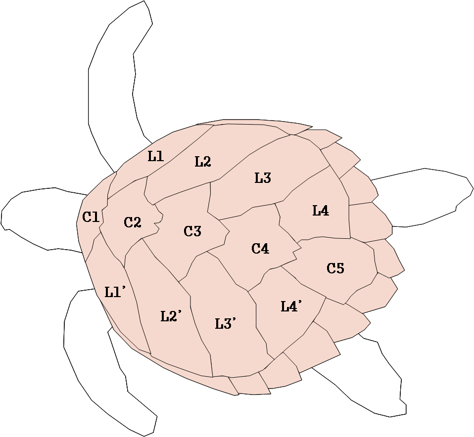 schemes of the shell scutes of Eretmochelys imbricata